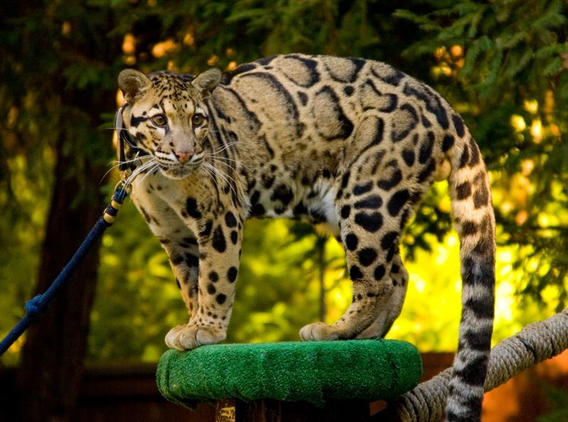 This guy is normally located in the Monkey Trails of the San Diego Zoo and a pro at hiding. I've rarely seen him and I've been to the zoo A LOT. So I was delighted when I went to the Hunte Ampitheater's show and they brought none other than THE clouded leopard out as an animal ambassador. He's really one of my favorites and he's really sweet with the trainers/keepers. This is one of the big cats that actually meows. It's really cute.